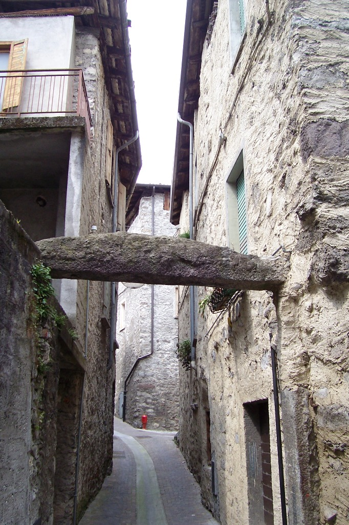 Portal, Malegno, Val Camonica